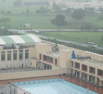 view of the sports complex